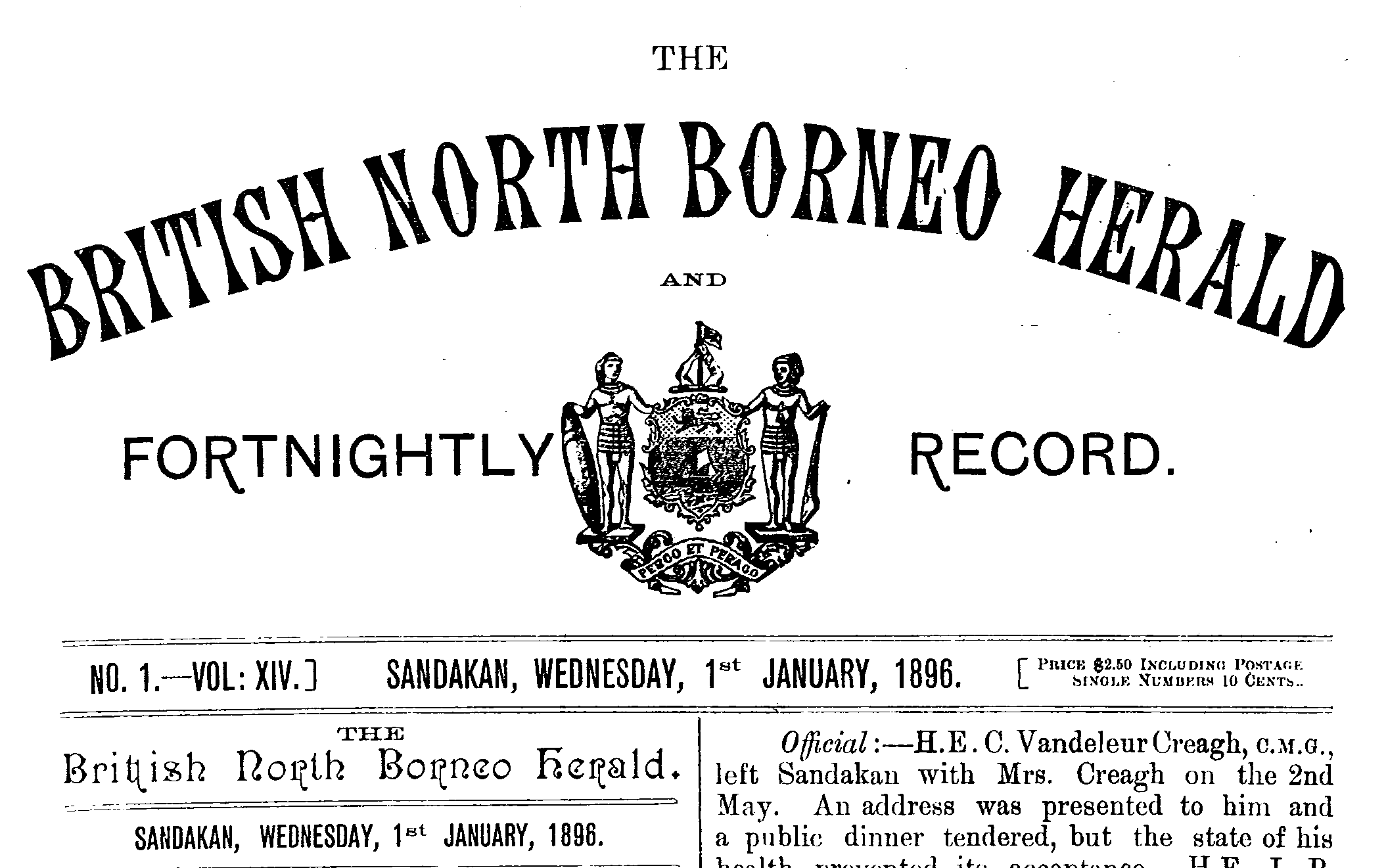 British North Borneo Herald and Fortnightly Record, Vol. XIV, No. 1, 1892, Sandakan, 1. Januar 1896